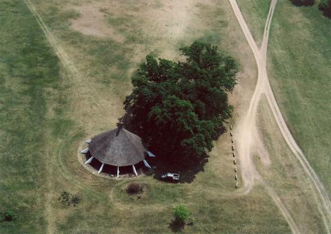 Bugac, Hungary, aerial photography